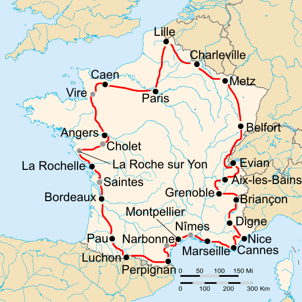 Route of the 1936 Tour de France, starting and finishing in Paris. The black dots are the cities that hosted a stage start and finish, the grey dots are the cities where a split stage was split.